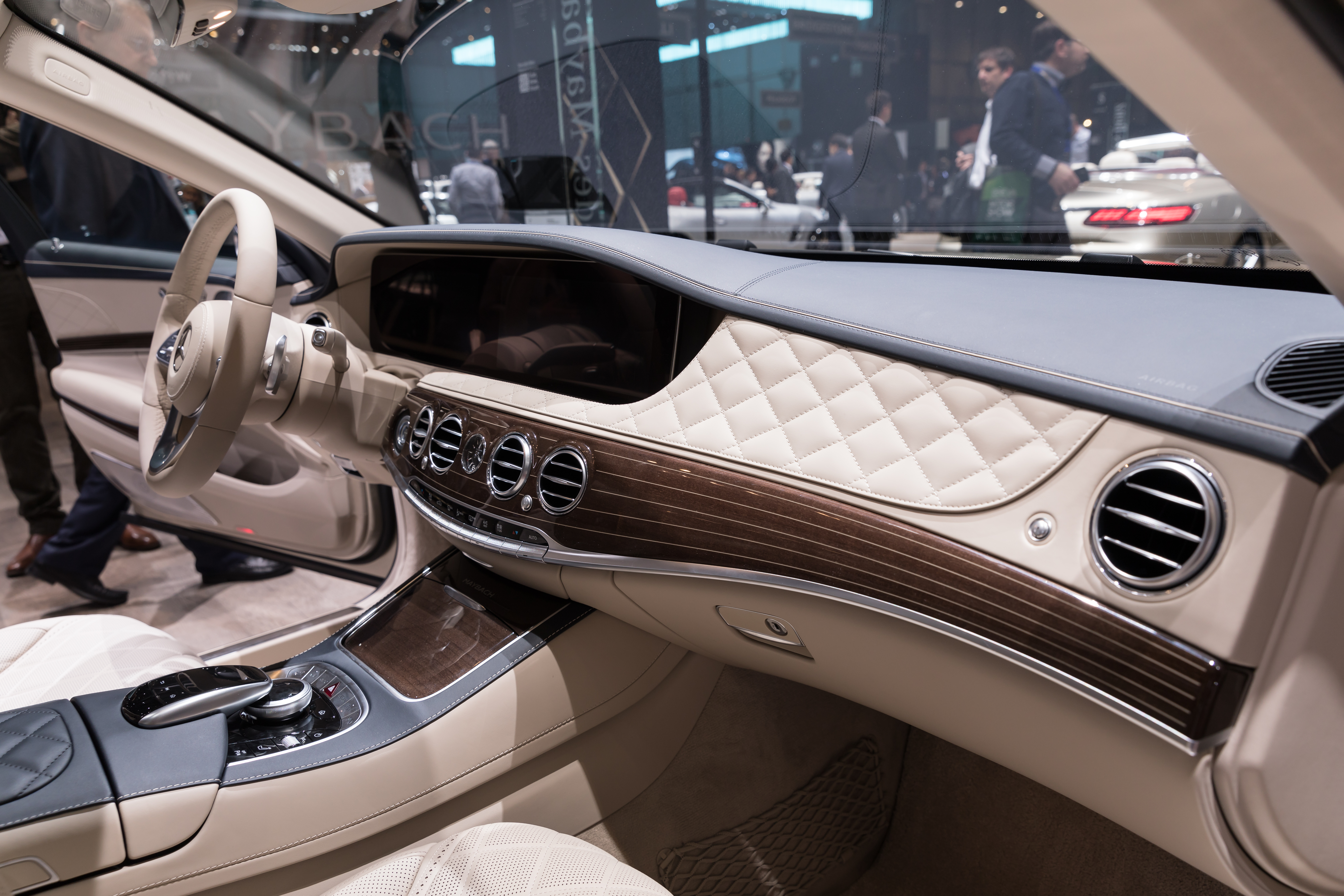 Geneva International Motor Show 2018